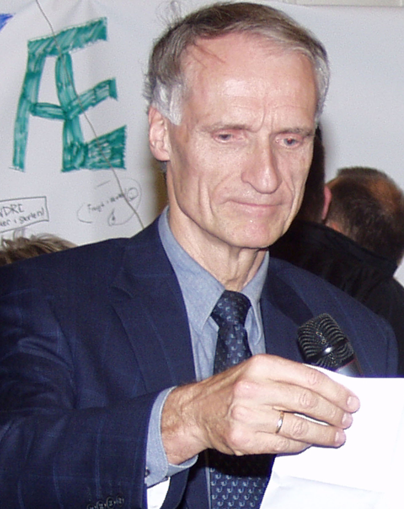 Danish Minister for the Interior and Minister for Health and Prevention Bertel Haarder